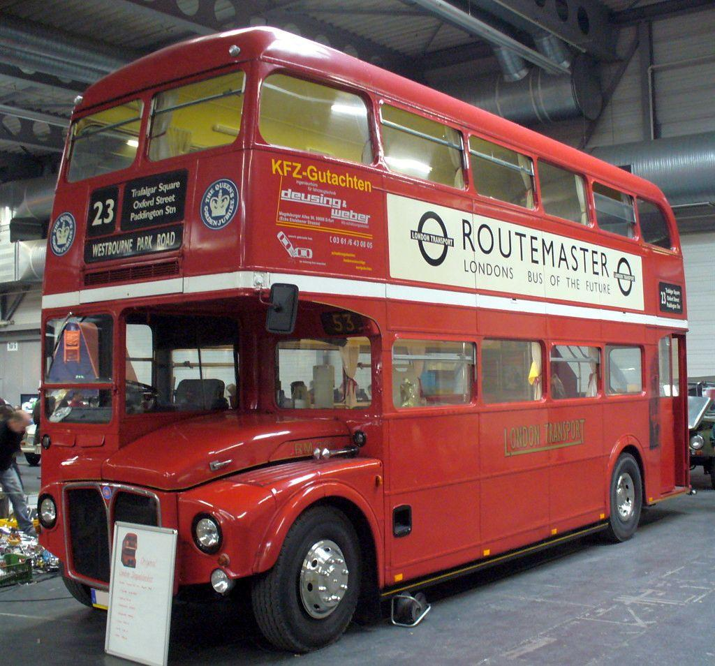 Routemaster bus pictured at a vintage car exhibition in Erfurt, Germany.